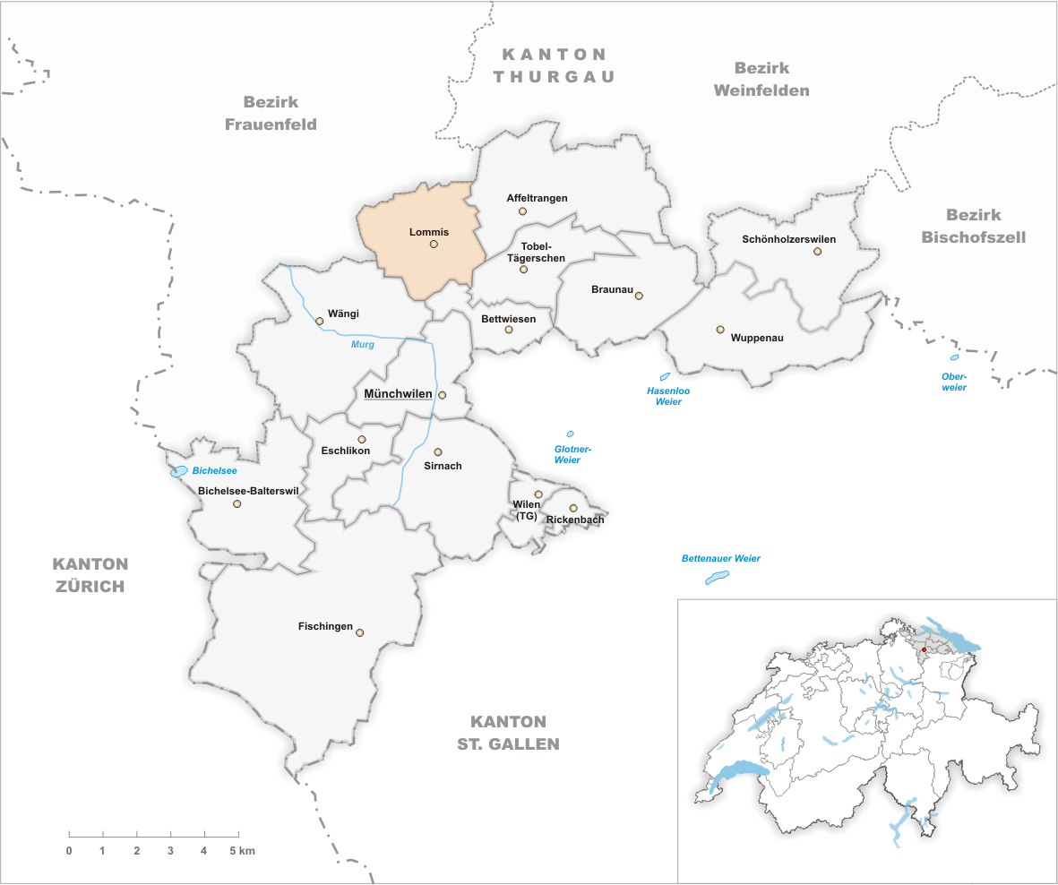 Municipality Lommis